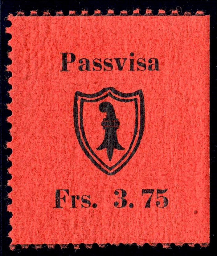 Switzerland Basel 1918 frontier revenue 3.75Fr - 2, perforated 11.5.